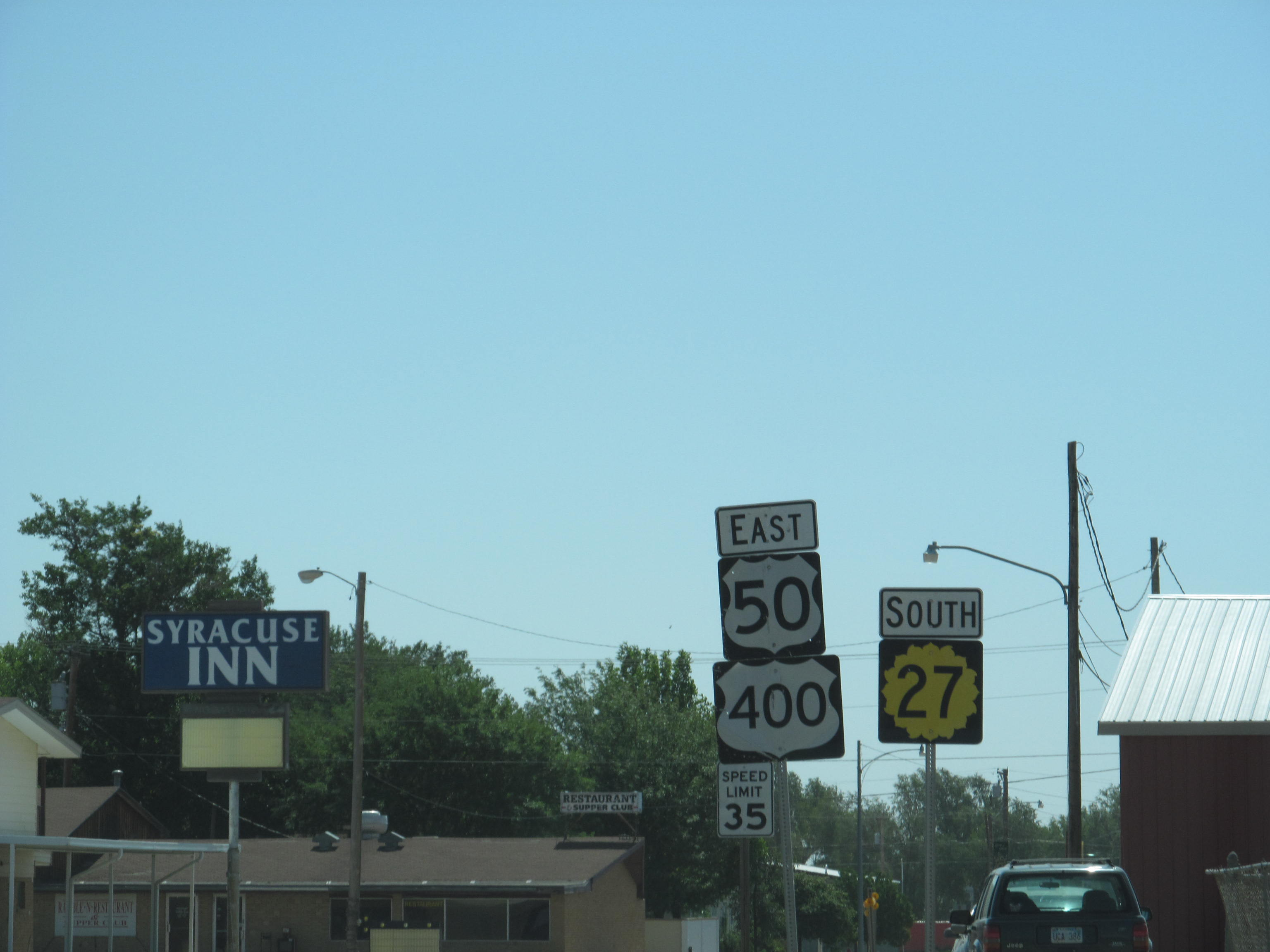 K-27 Southbound and US-50/400 Eastbound